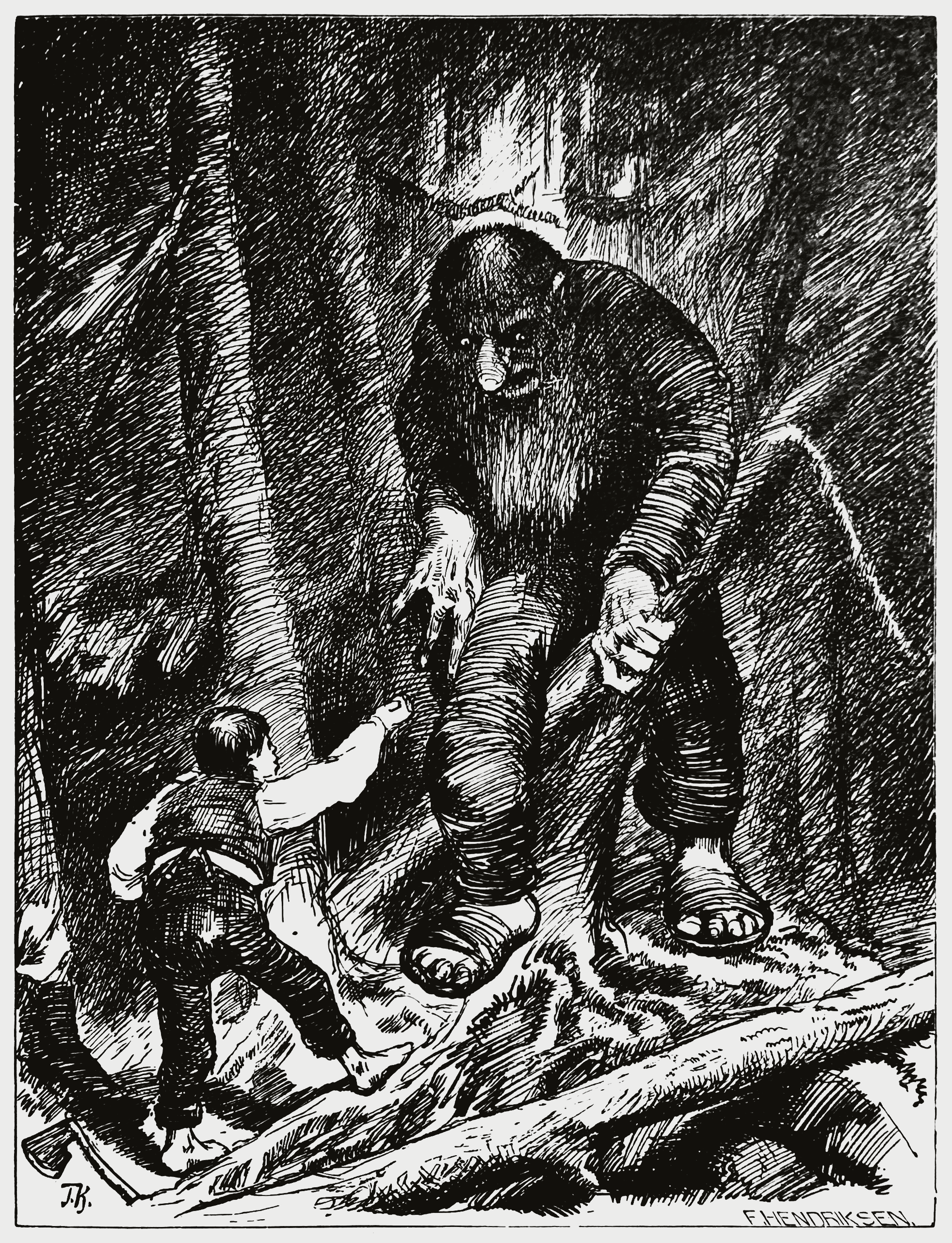 Askeladden, presumably squeezing a piece of cheese in his hand, fooling the troll to believe he's squeezing a white rock.